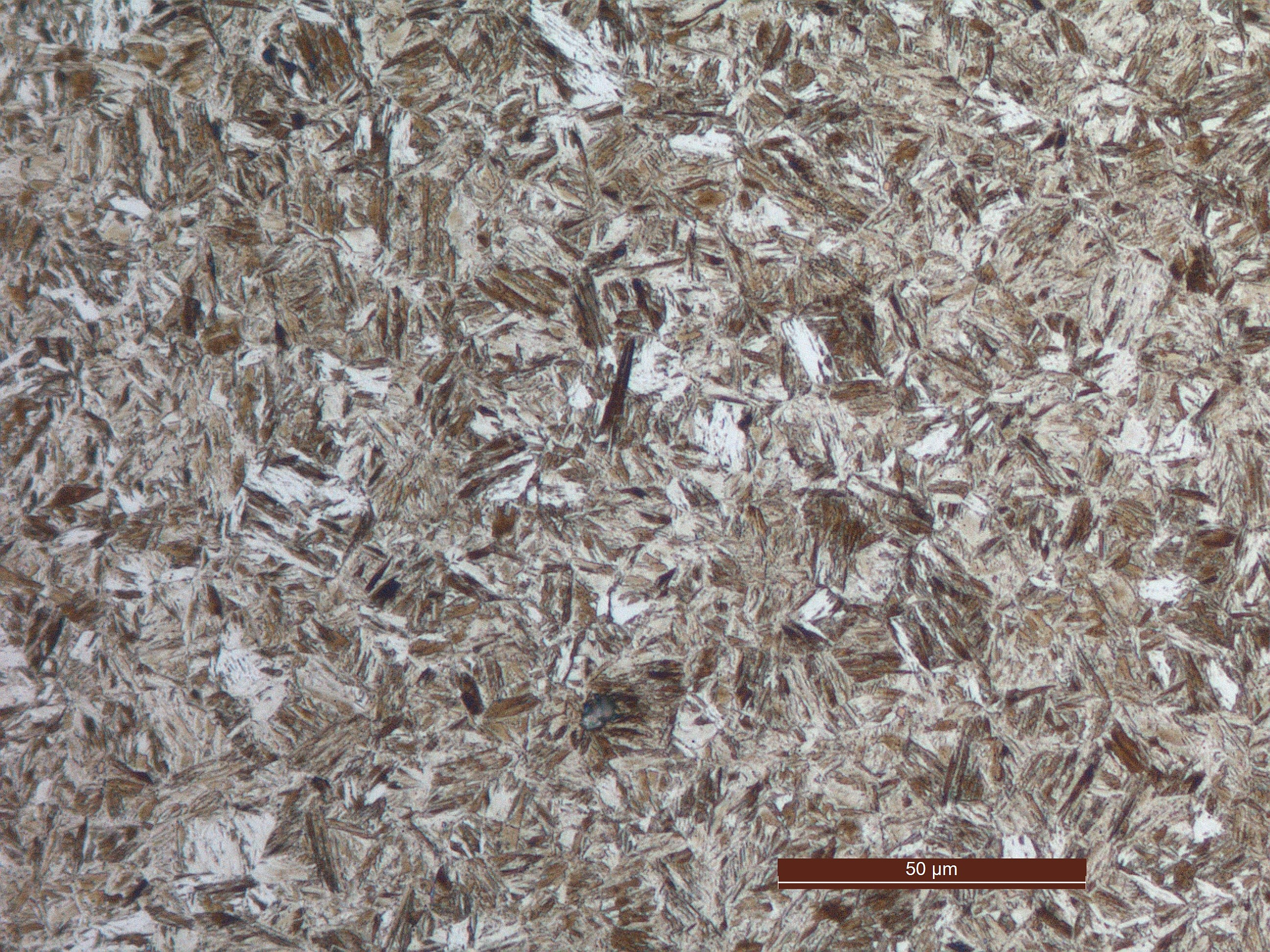 Martensite on quenched-tempered structural steel